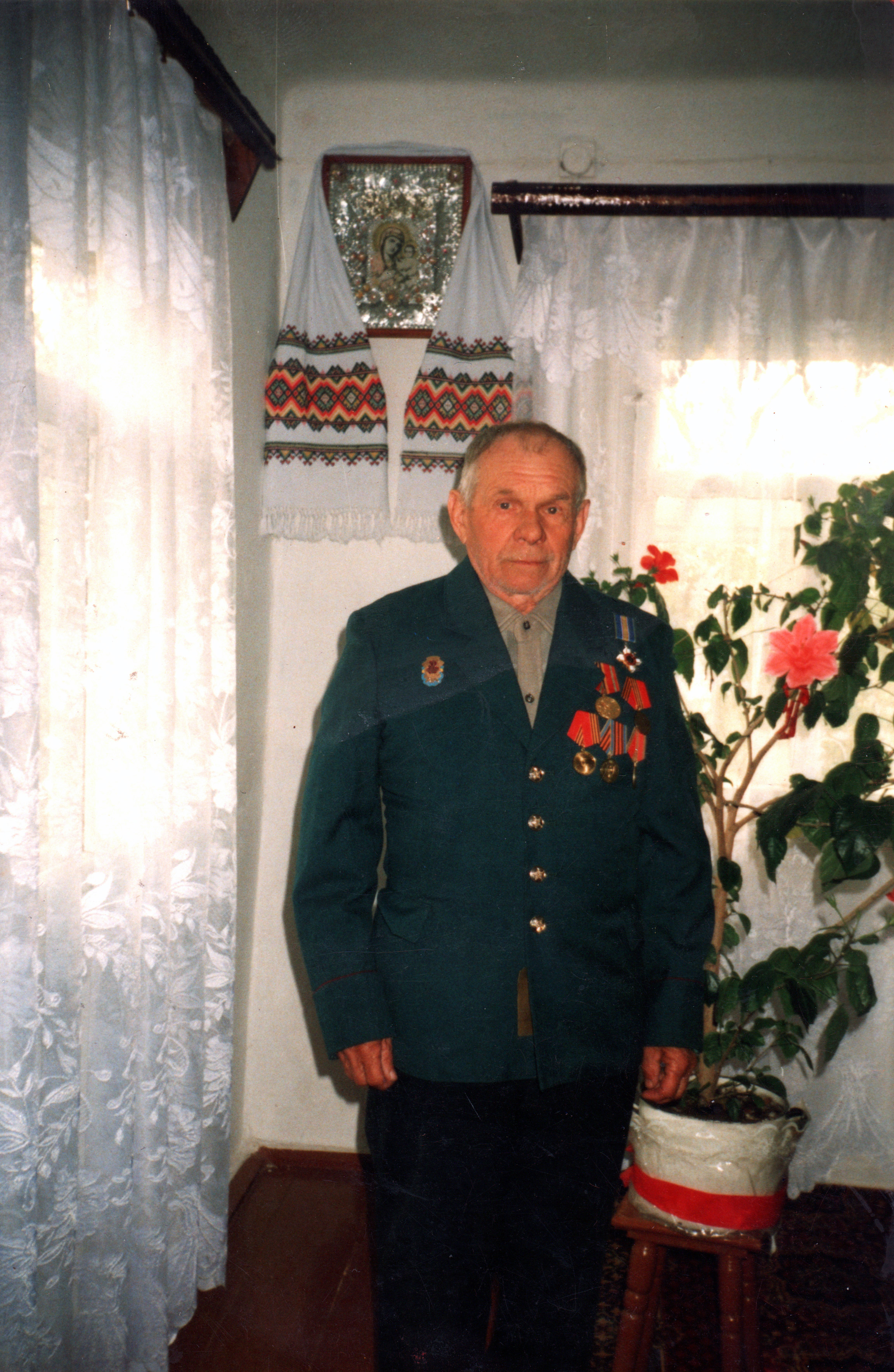 Andrew Miller Philipp